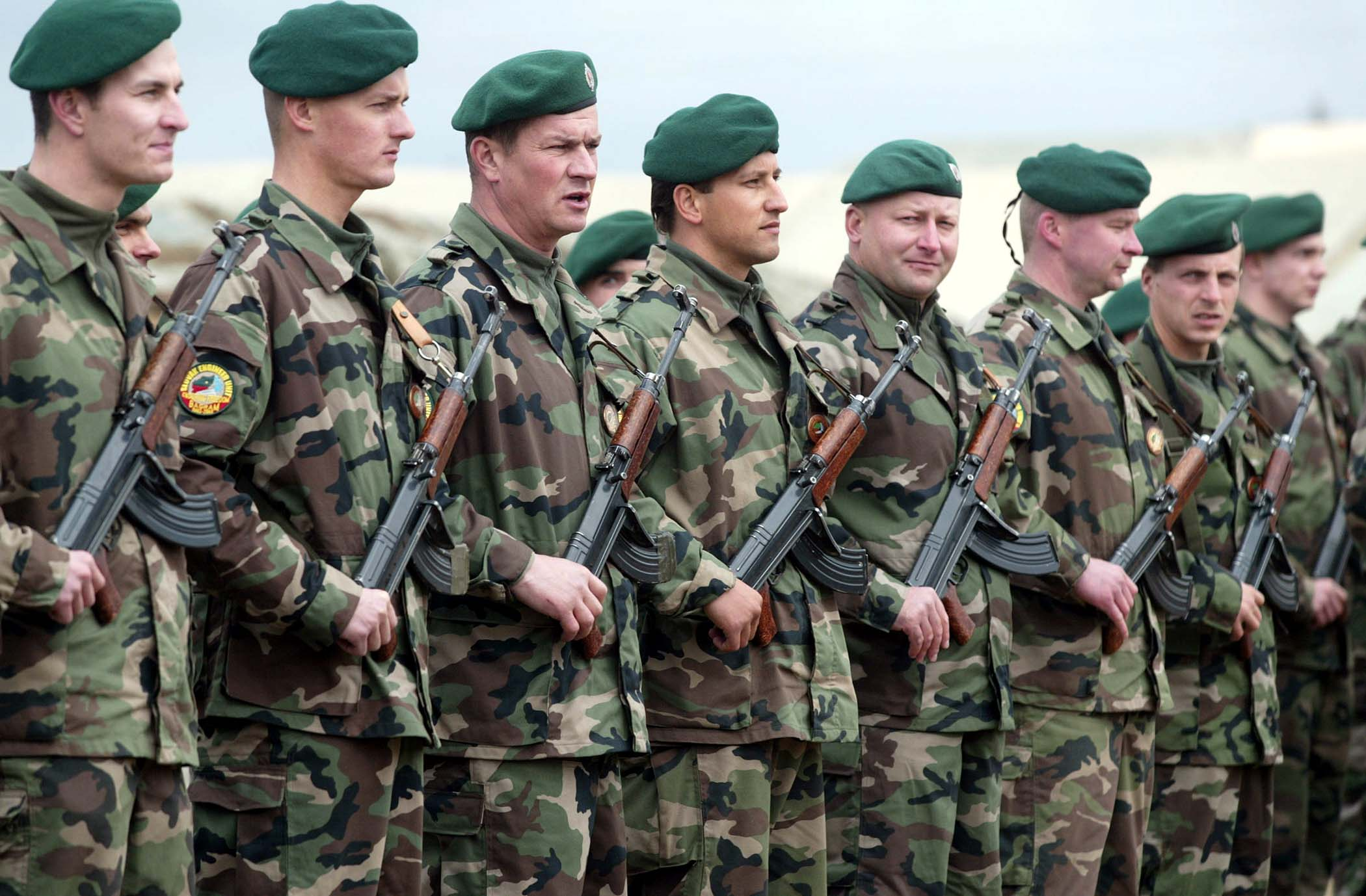 Slovak troops stand in formation at Bagram Air Base, Afghanistan, Jan. 23, awaiting the arrival of Slovak officials, including Prime Minister Mikulas Dzurinda and Defense Minister Juraj Liska.